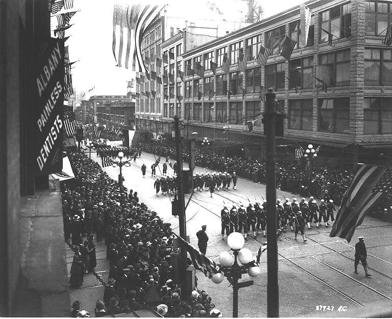 Sign for Albany Painless Dentists at left. Subjects (LCTGM): Parades & processions--Washington (State)--Seattle; Streets--Washington (State)--Seattle; Business districts--Washington (State)--Seattle; Advertisements--Washington (State)--Seattle Subjects (LCSH): Victory Loan Parade, Seattle, Wash. ; Second Avenue (Seattle, Wash.)